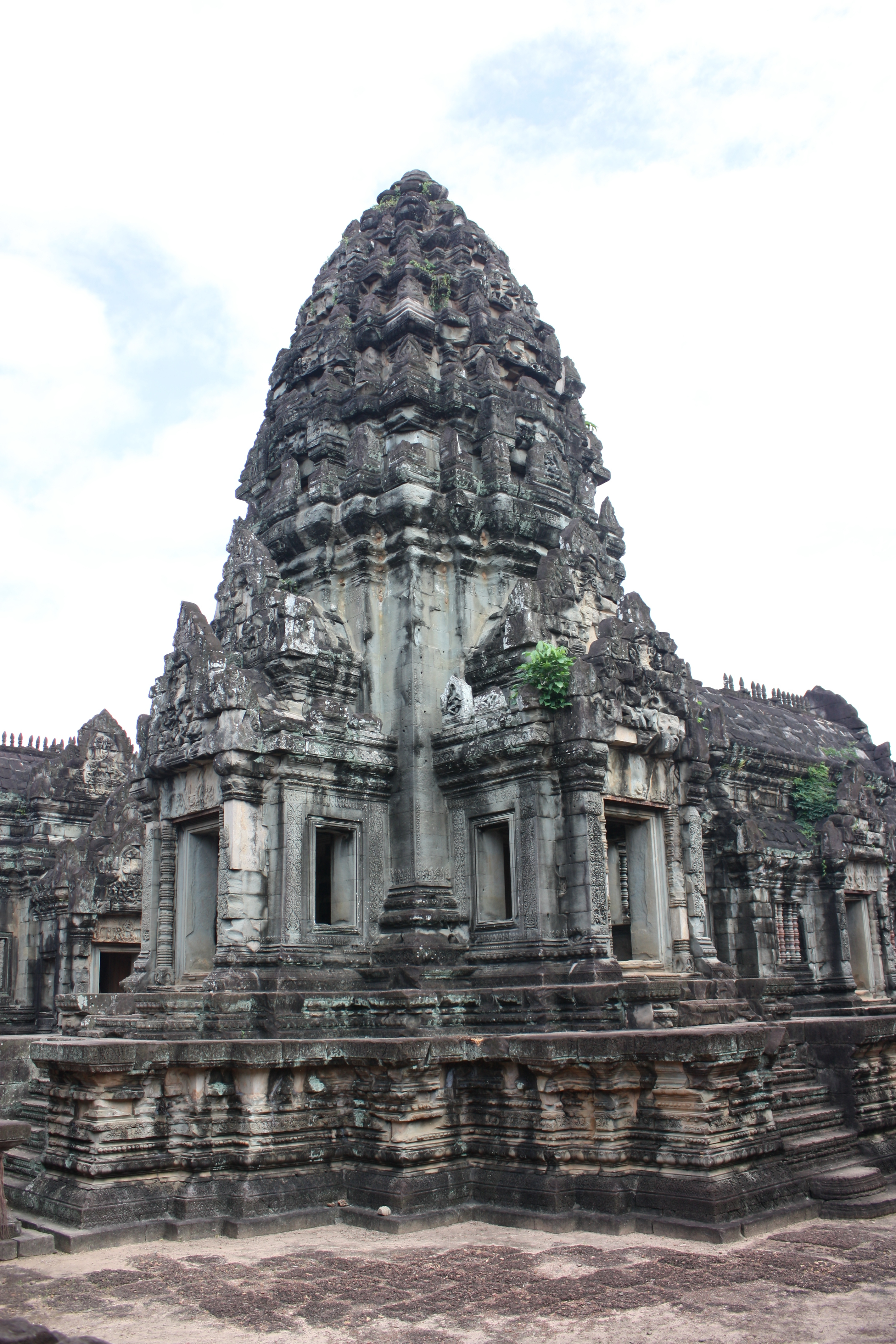 Banteay Samre central tower. Own work November 2010.